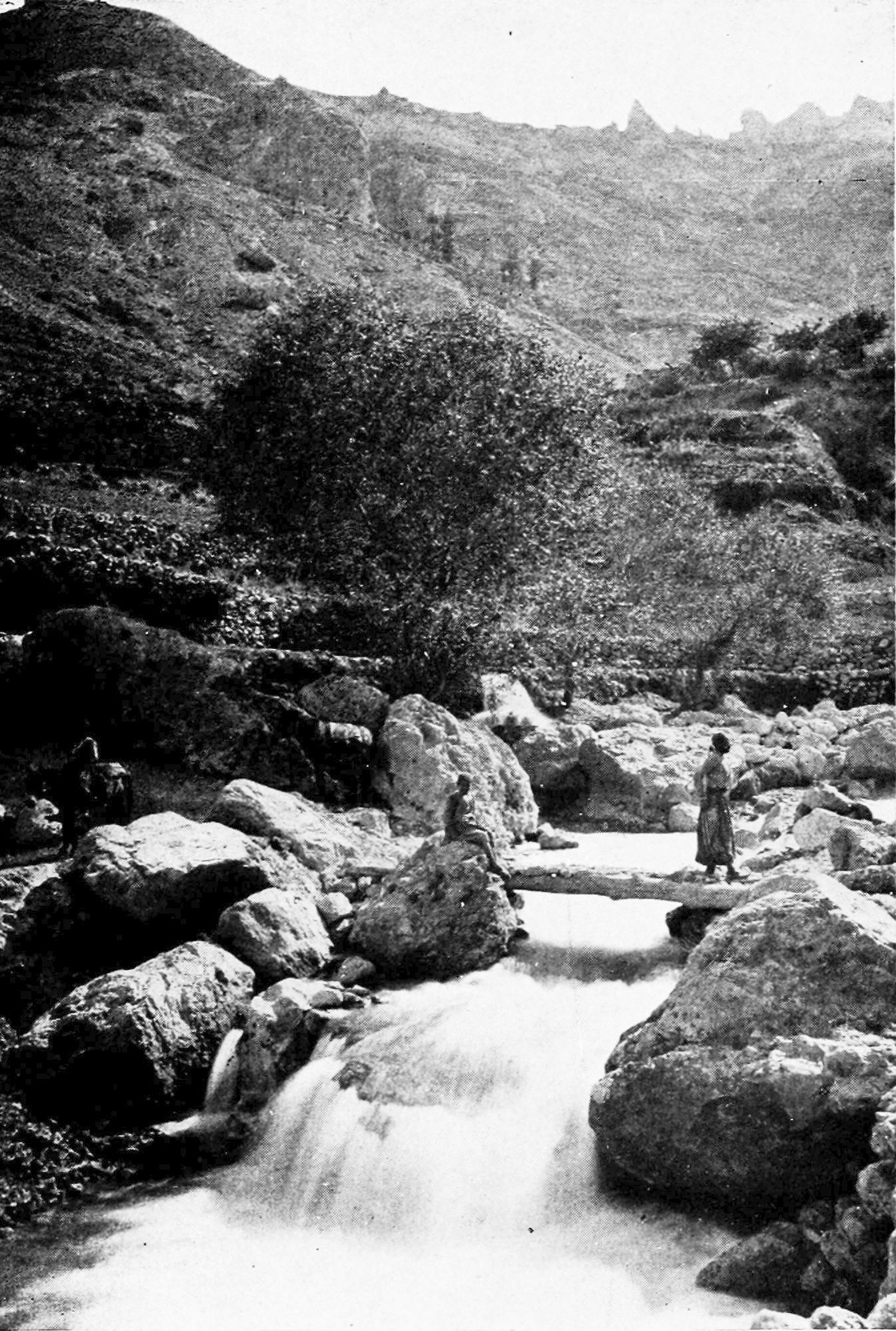 Source of the Kadisha river below the cedars of Lebanon plateau